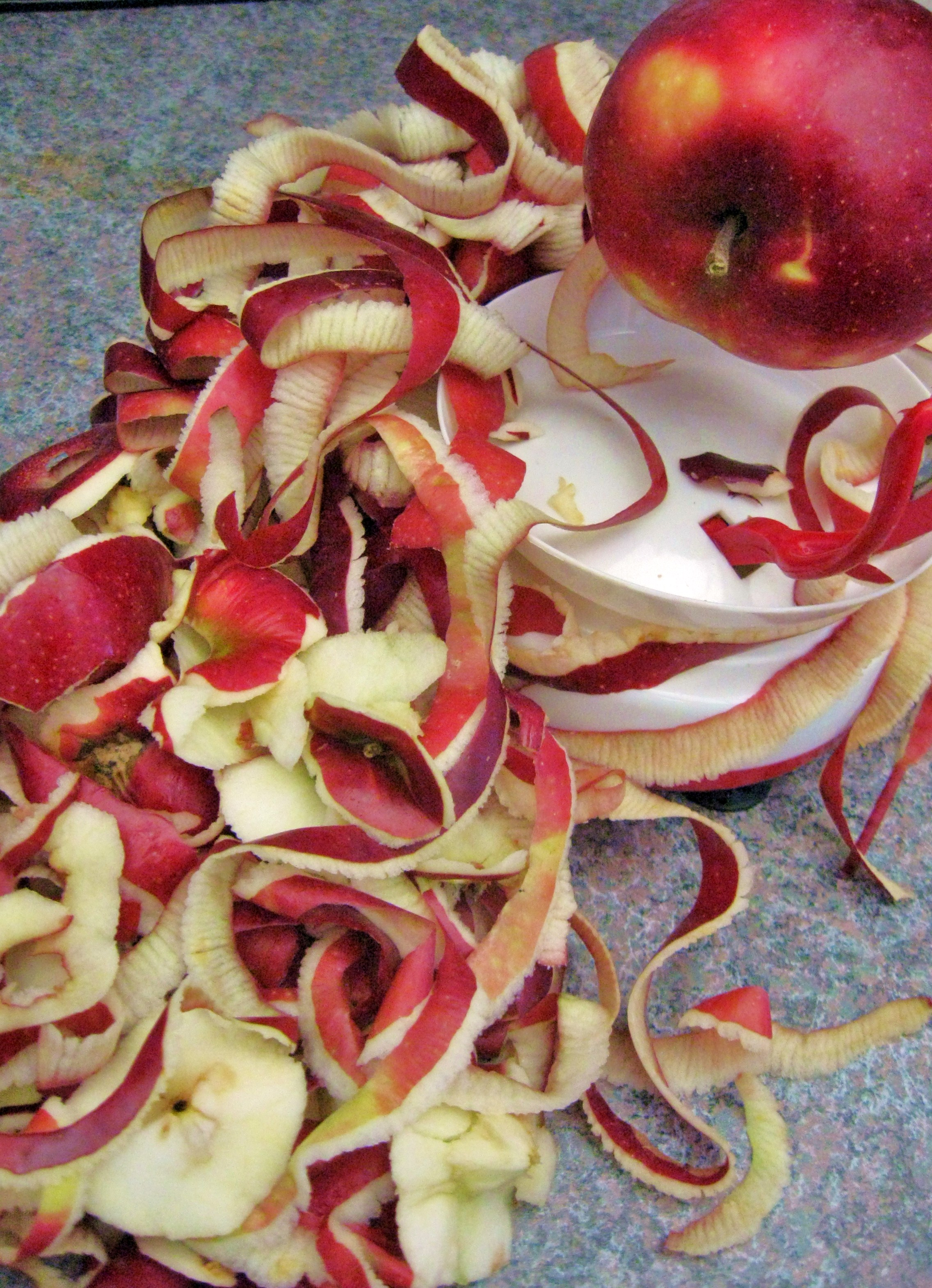 Apple peelings.